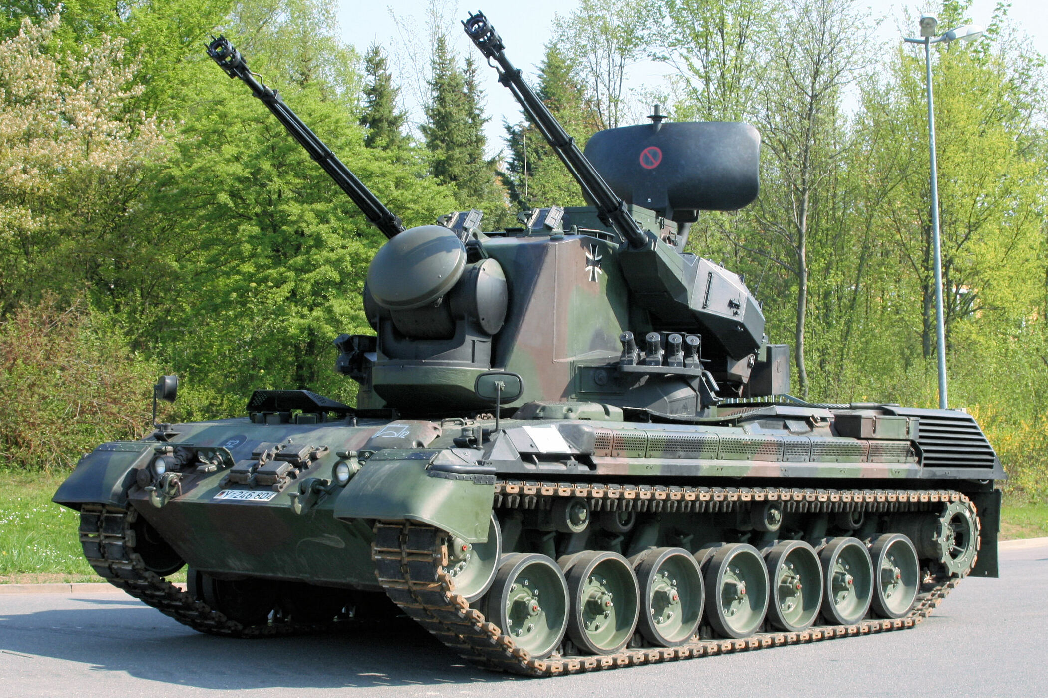 Antiaircraft Tank Gepard 1A2